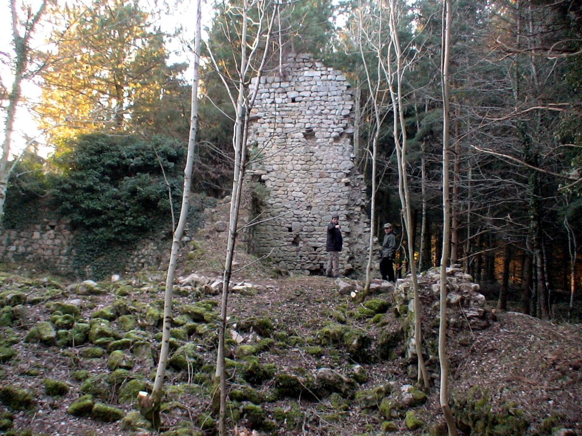 Castle of Montguerlhe (2008)